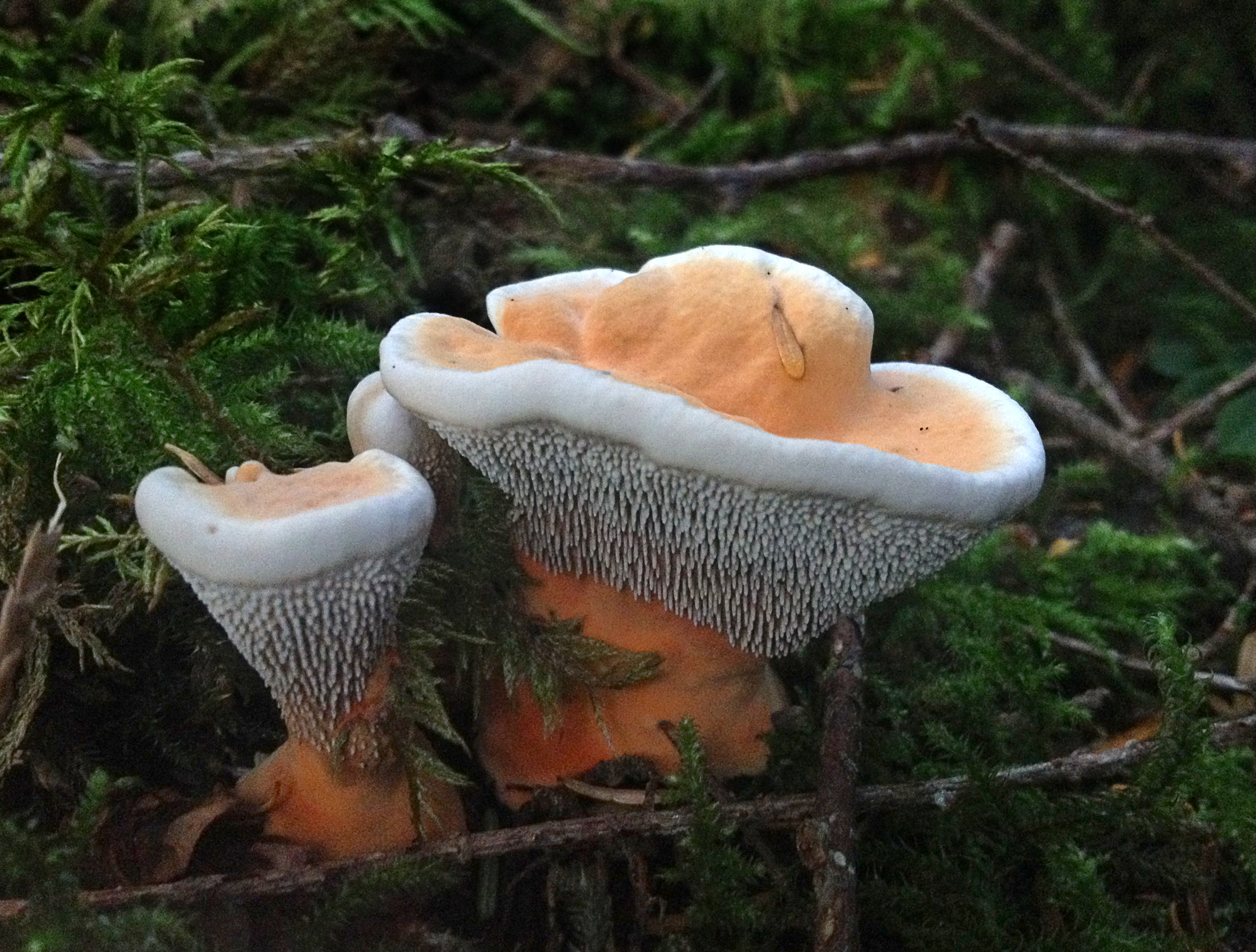 Hydnellum aurantiacum (Batsch) P. Karst. Image location: Wynoochee Lake, Olympic National Forest, Washington, USA For more information about this, see the observation page at Mushroom Observer.